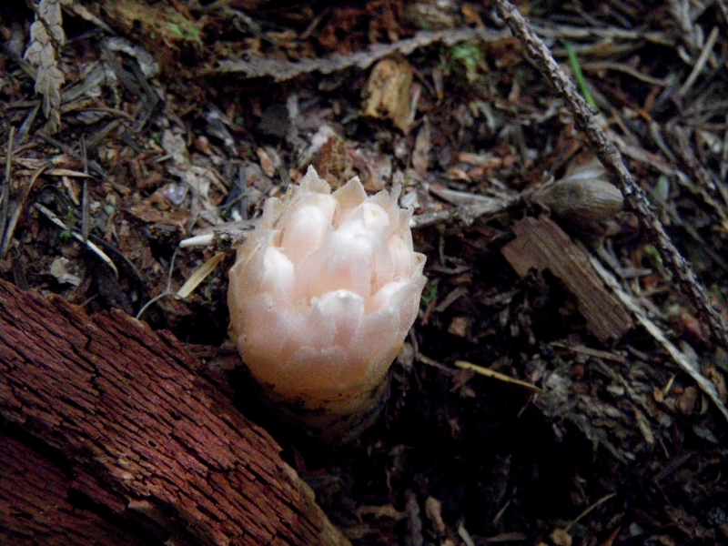 Shoot of Hemitomes congestum